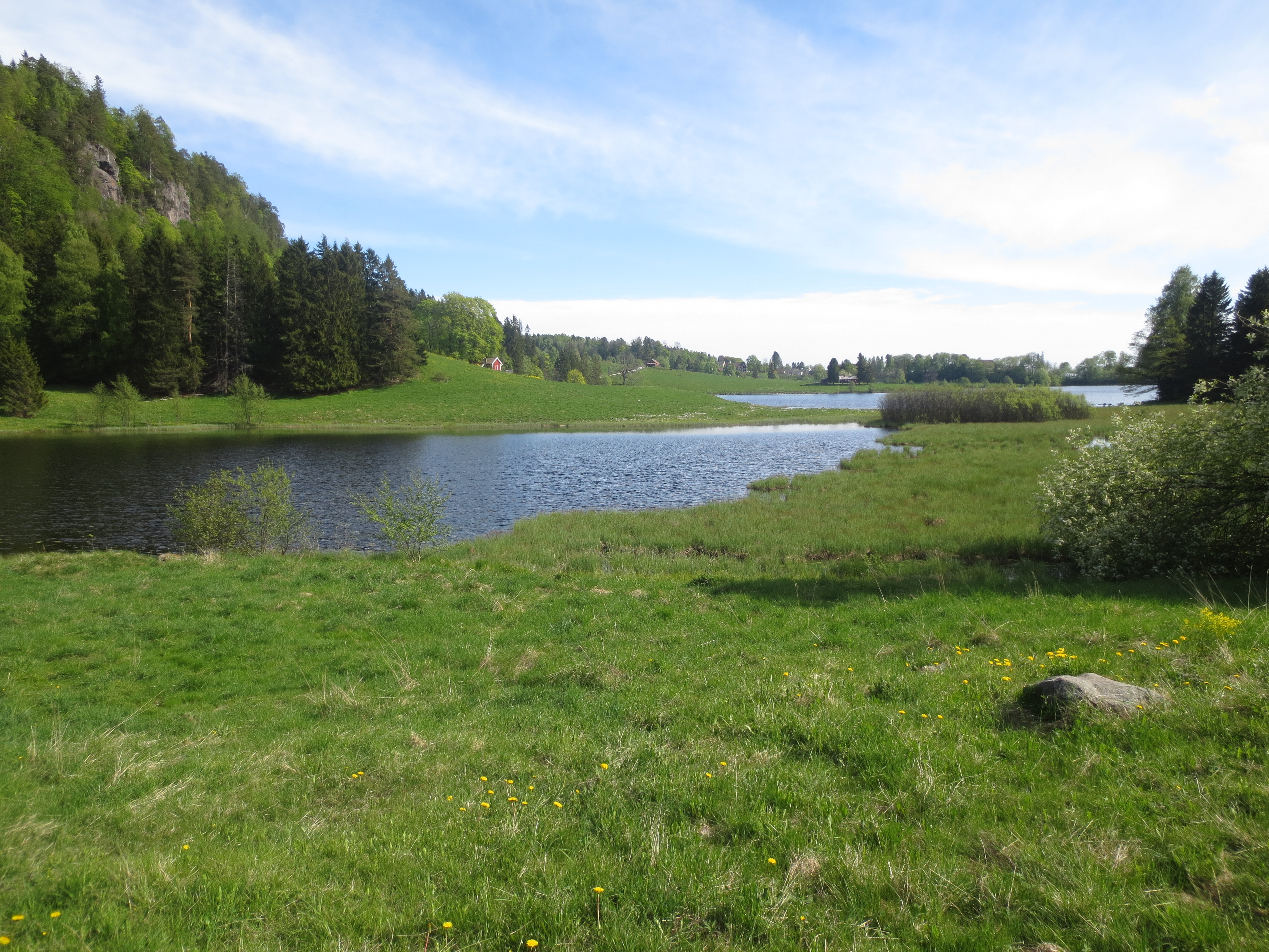 From the Tömmervika part of Northern Semsvannet lake, Asker (Norway)